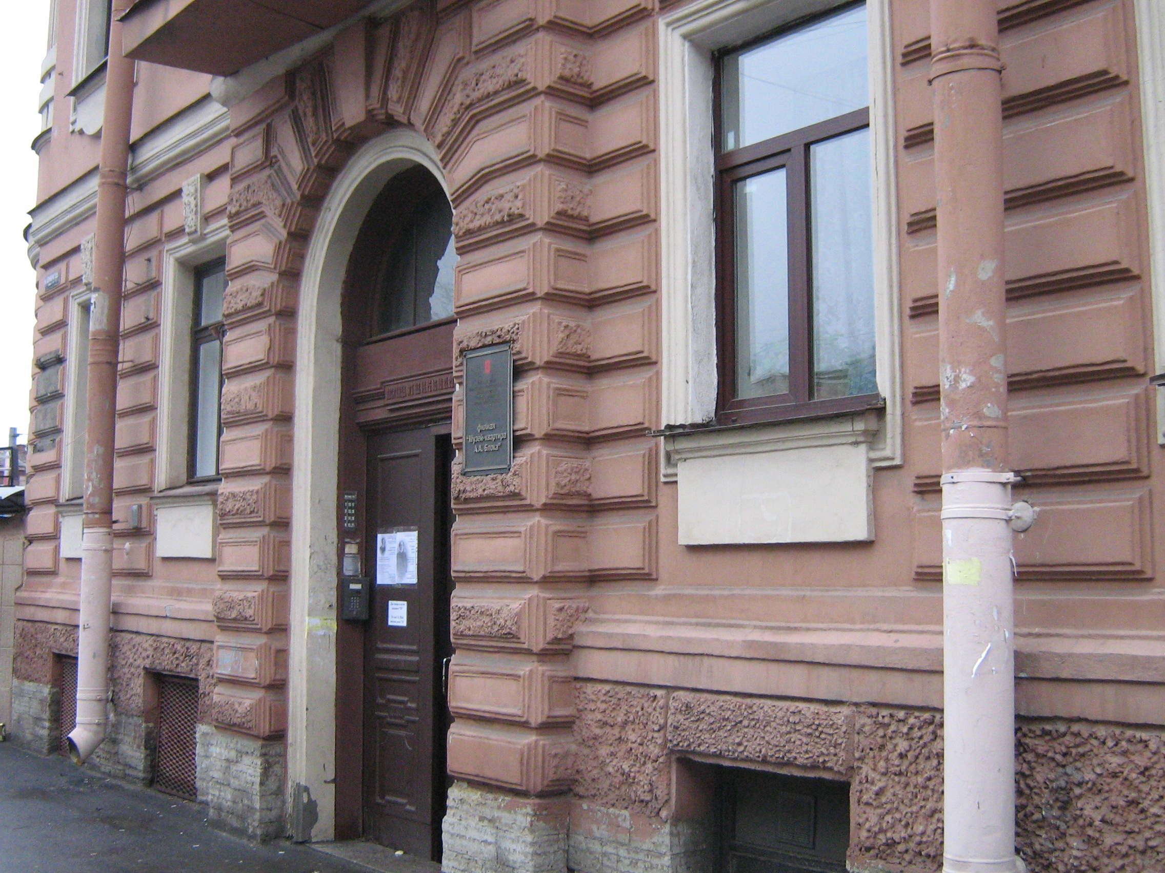 Saint Petersburg (Russia), Admiralteysky District